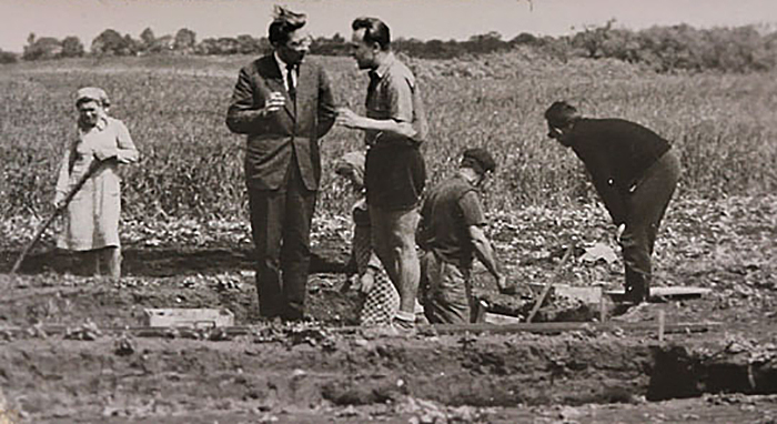 Tadeusz Malinowski on excavations in 1980